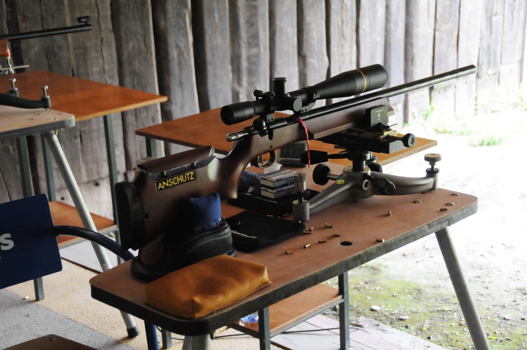 J. G. Anschutz 1903 Benchrest (BR50) .22 LR rifle